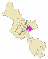 position of district 2 in an outline of the metropolitan area of HCMC (Ho Chi Minh City, Vietnam) - ISO code VN-F-HC. Keywords: map, outline, city, Ho Chi Minh City, HCMC, HCM, district 2, quan 2.